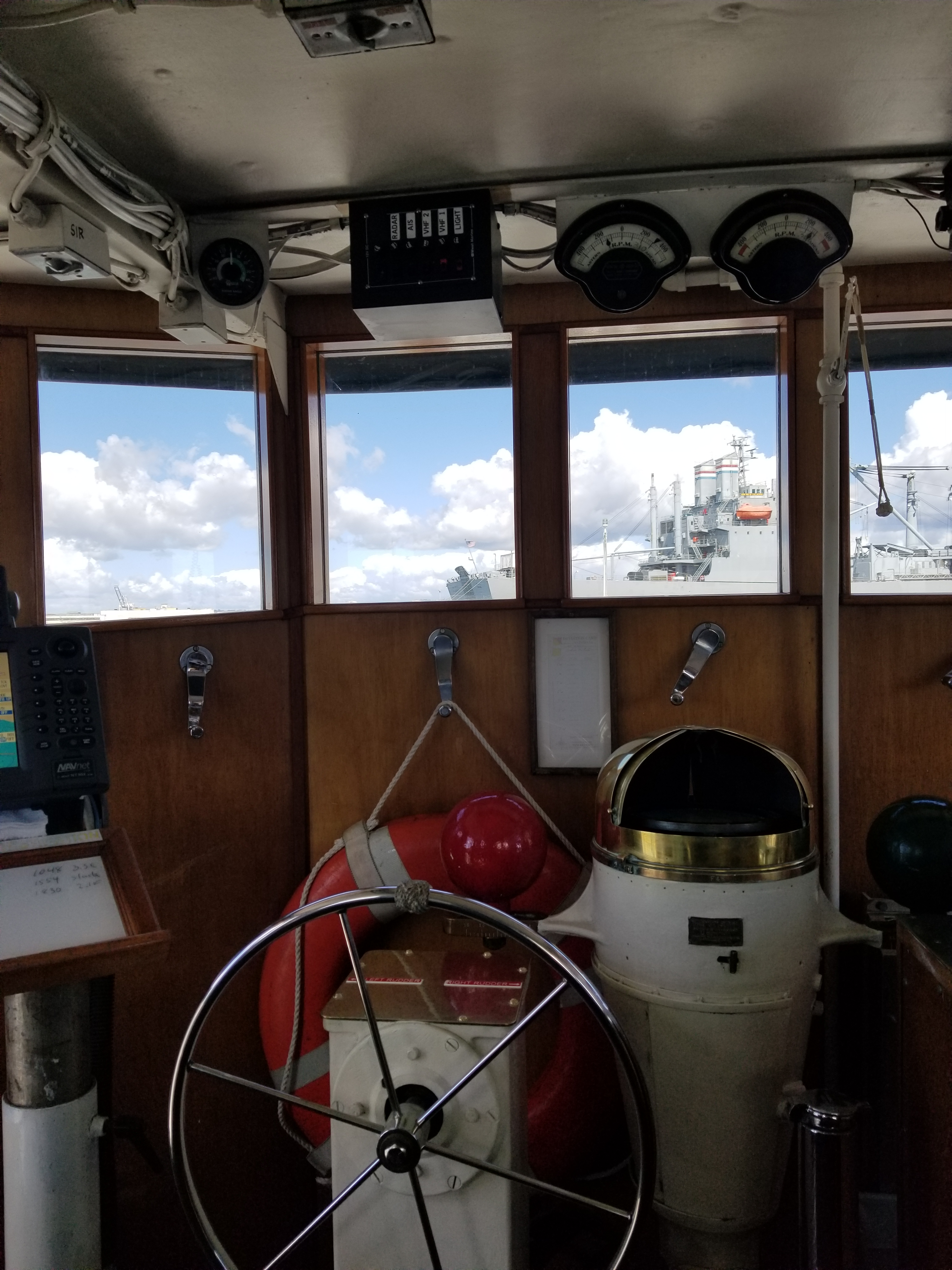 The binnacle and wheel in the Wheel House of the USS Potomac.